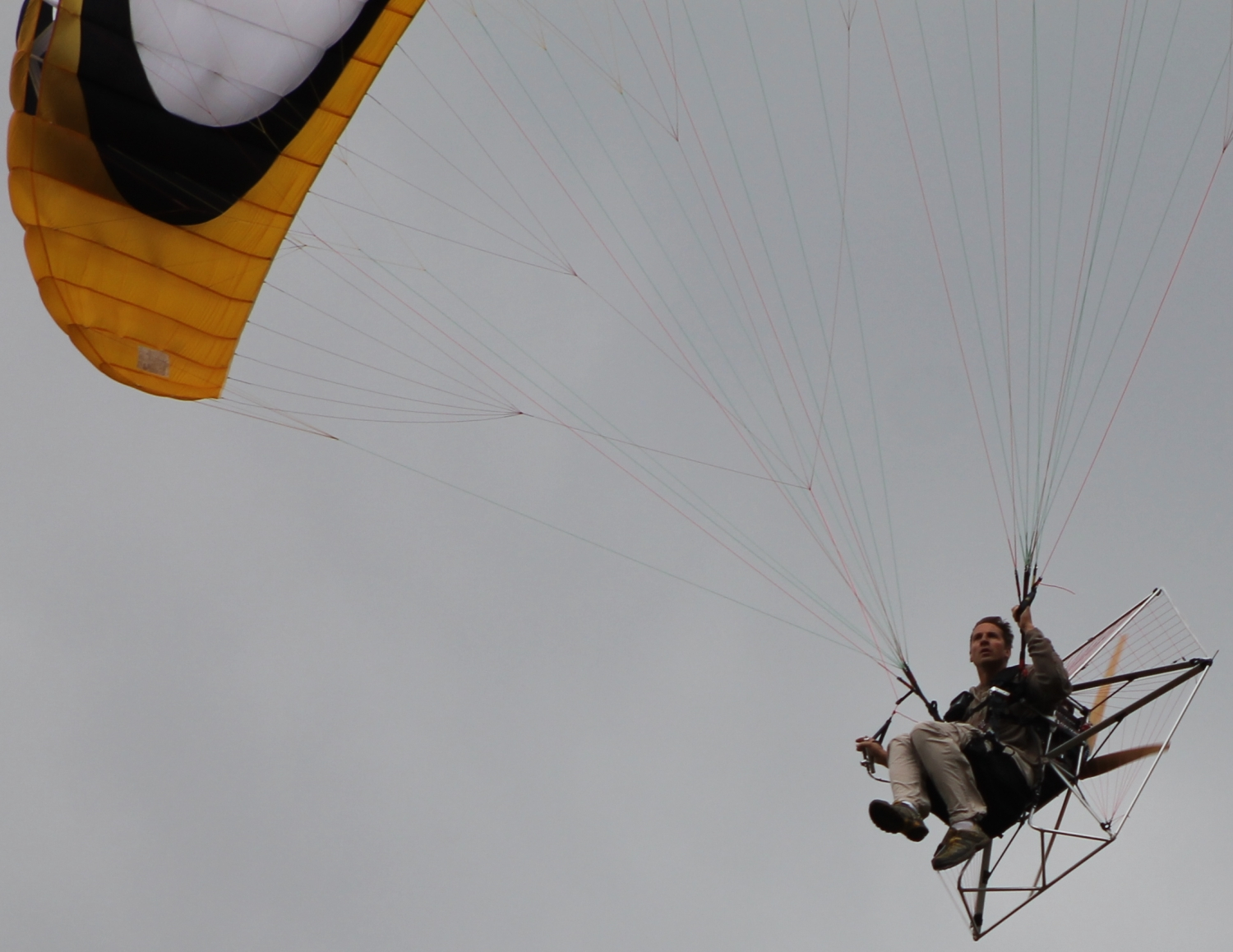 Electric paramotor E-Spider. Design and electric engine by Electravia. First flight in June 2012. Owner : Olivier Béristain, France.